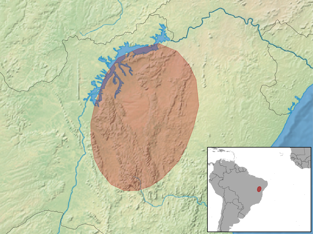 geographic distribution of Thrichomys inermis